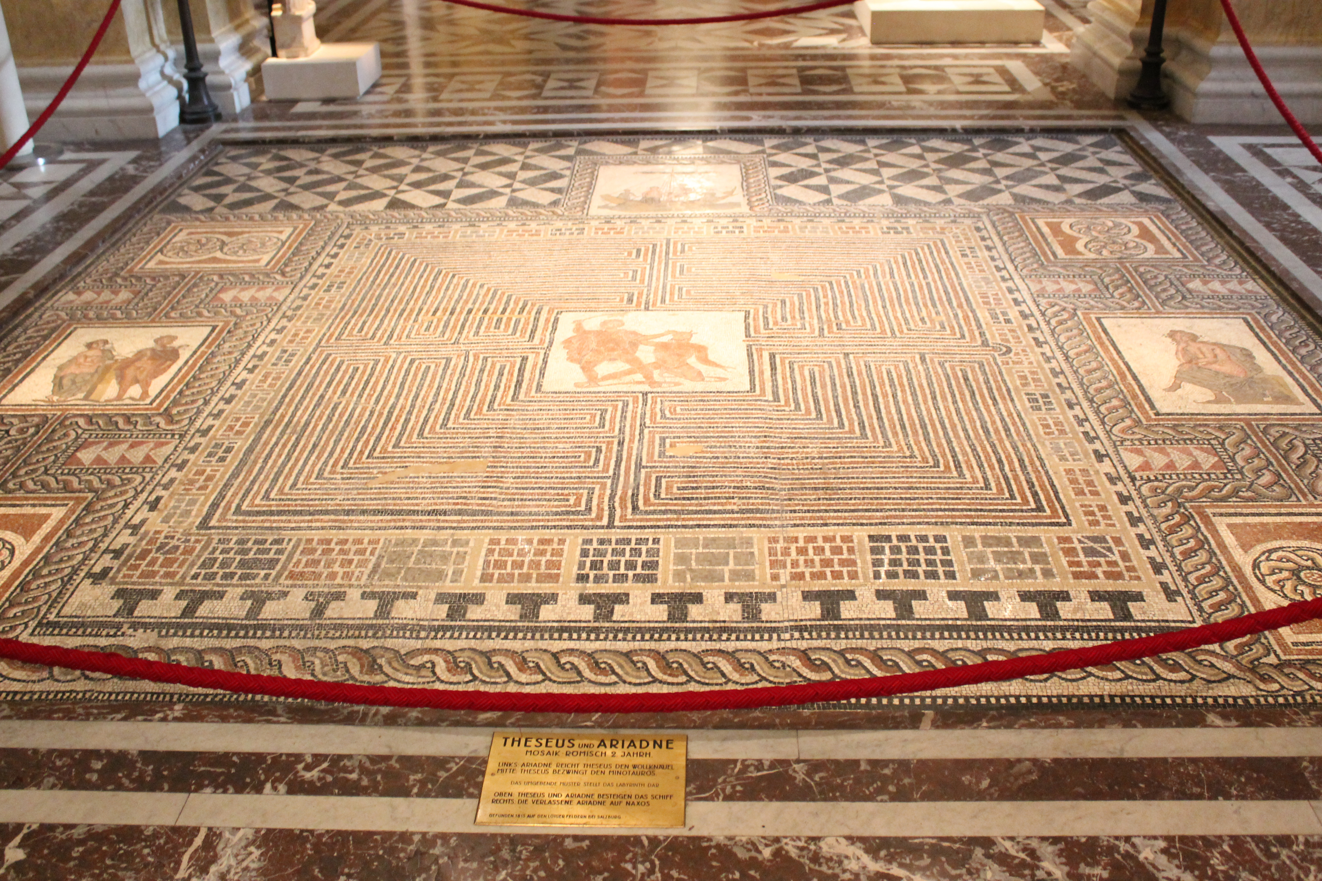 So called Theseus mosaic found in the ancient roman villa Loig at Wals-Siezenheim, Salzburg. Now presented in the Kunsthistorisches Museum Wien at Vienna.